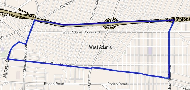 Map of the West Adams district of South Los Angeles, California. As outlined by the Los Angeles Times.